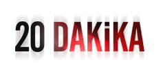 Logo of 20 Dakika.